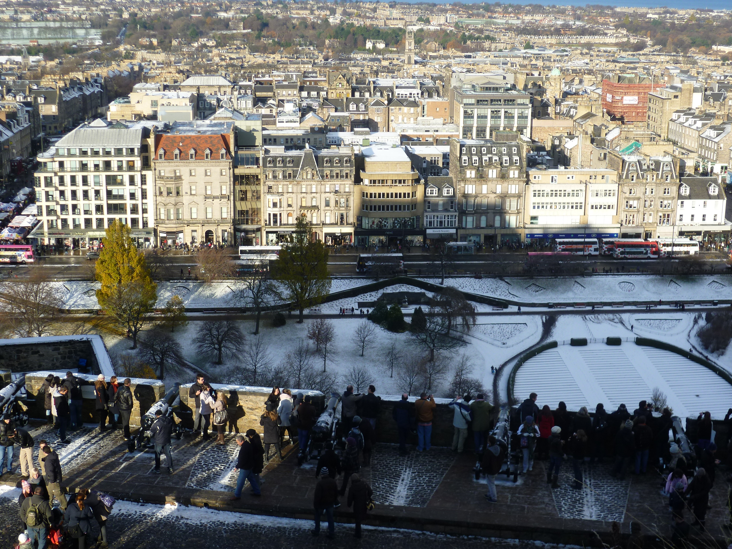 The Georgian New Town from Edinburgh Castle, largely obscured by the 19th and 20th-century commercial developments along Princes Street.